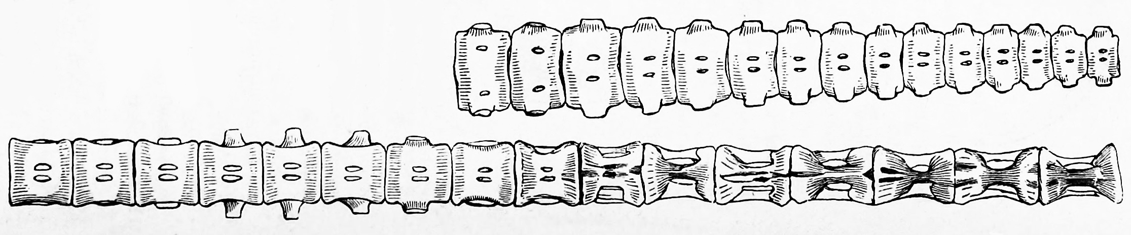 Cervical and dorsal vertebrae of Cimoliasaurus and Elasmosaurus.